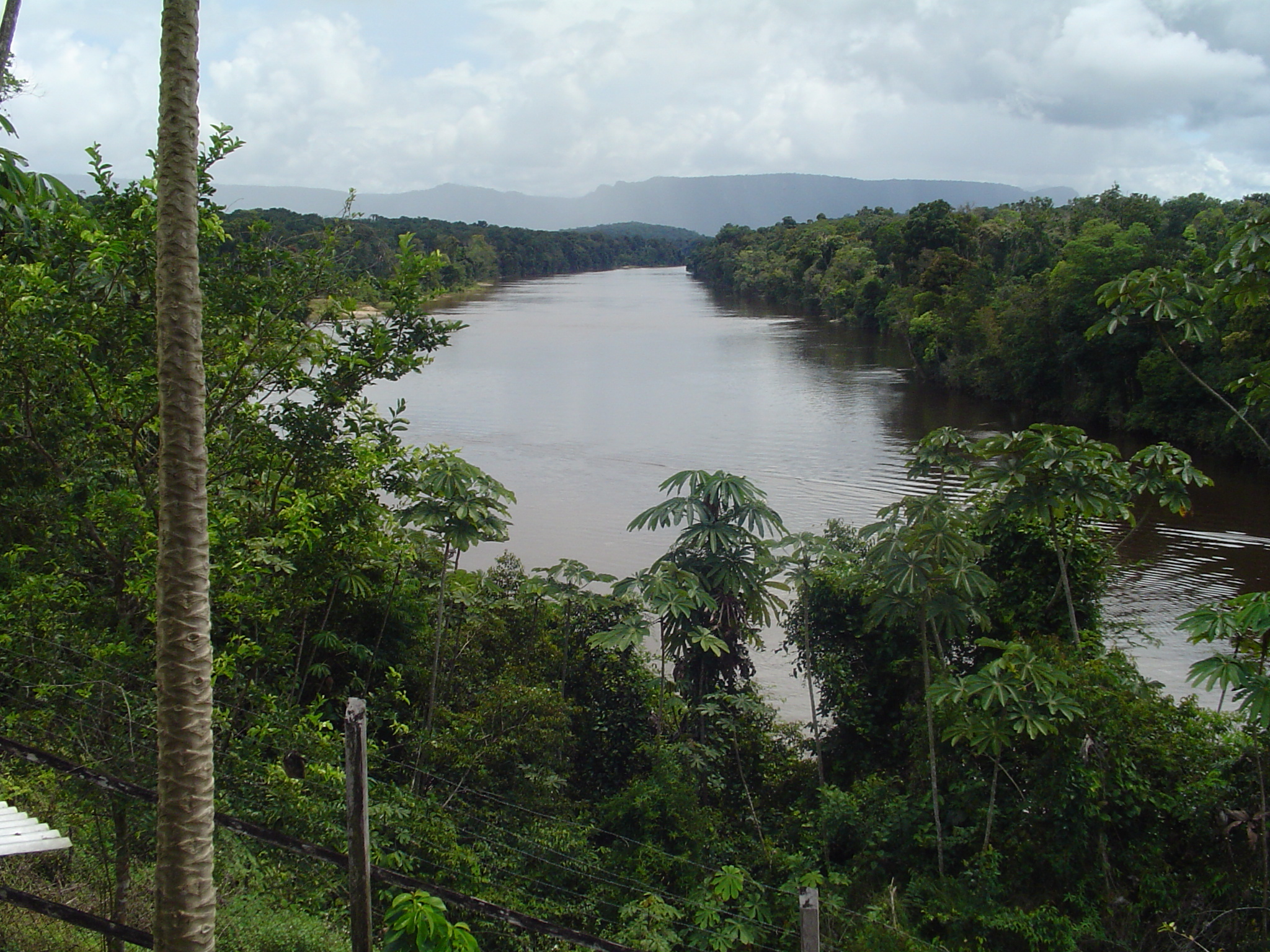 View of the Potaro River, Guyana Potaro_River_looking_south.jpg